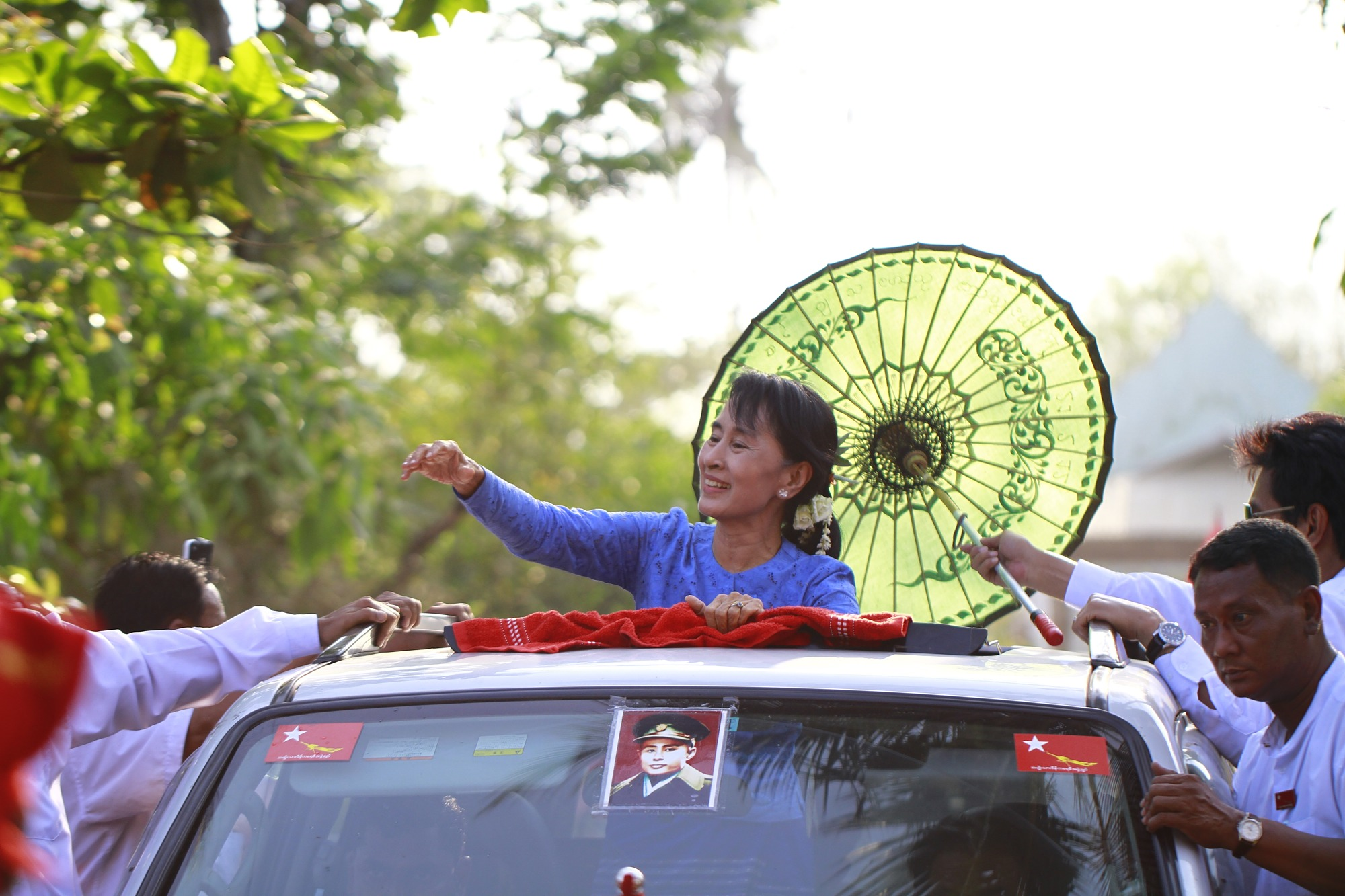 Nobel laureate Aung San Suu Kyi arrvies to give speech to the supporters during 2012 by-election campaign at her constituency Kawhmu township, Myanmar on 22 March 2012.